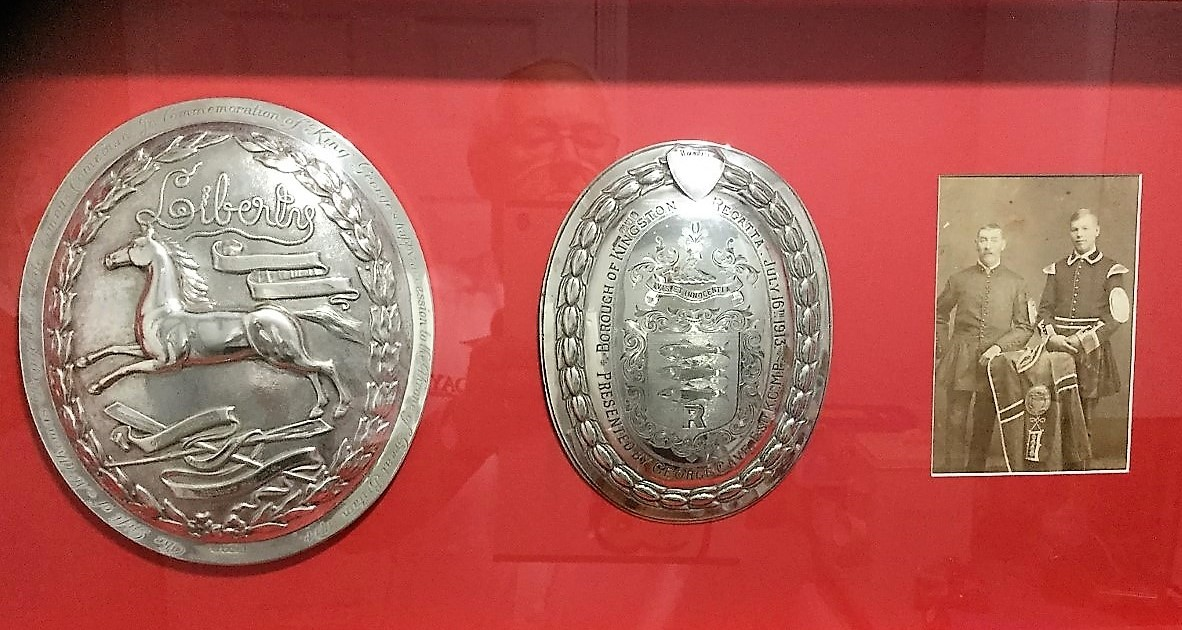 Frederick William Pearce's Doggett Badge won in 1916 pictured with his Father Frederick Pearce who also won the Doggetts race in 1894. Both are wearing the Doggetts winners coats.